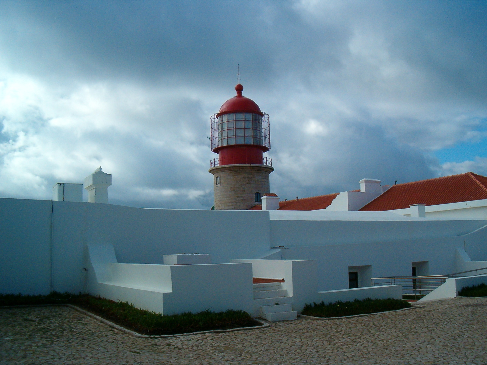 Farol Cabo S. Vicente (Sagres)